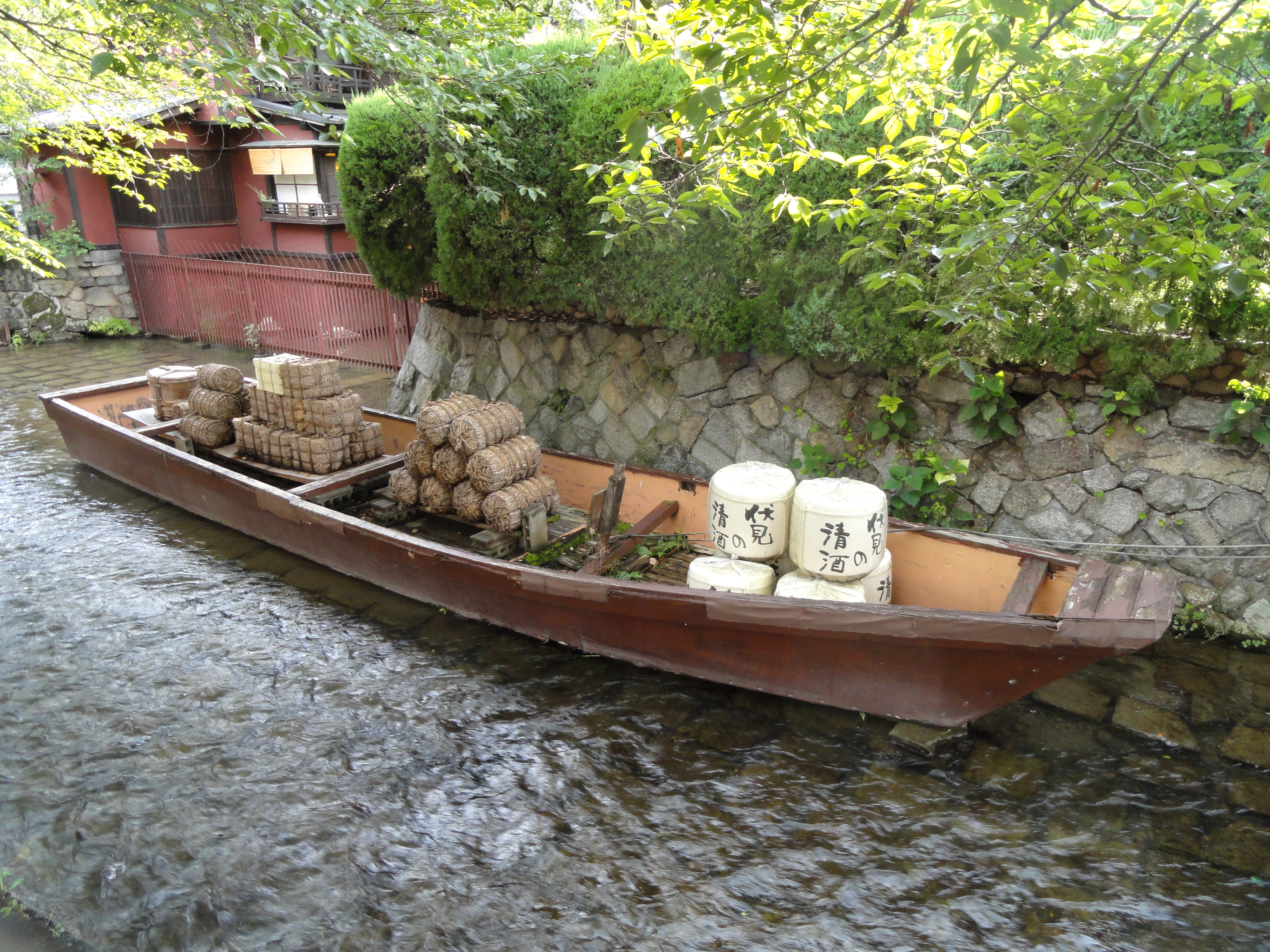 Takase River, Kyoto, Japan.